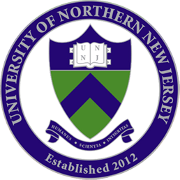 UNNJ crest with a Latin motto 中文（中国大陆）: UNNJ 校徽